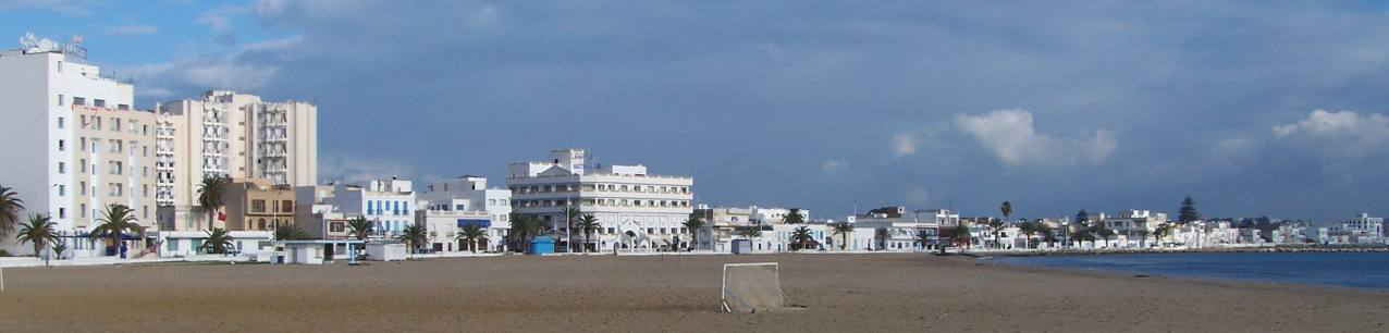 (c) 2005 Niels Elgaard Larsen La Goulette beach, probably more crowded in the summer.